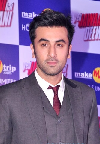 Indian actor Ranbir Kapoor promoting Yeh Jawaani Hai Deewani in 2013